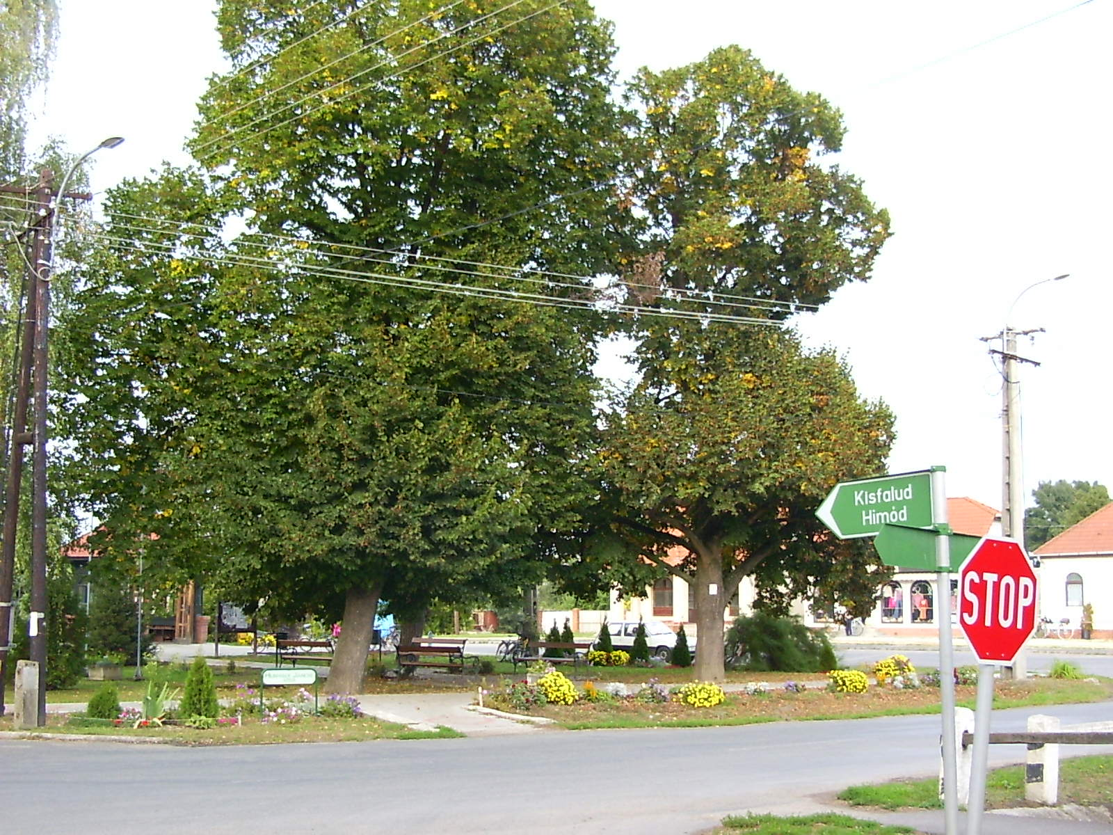 Mihályi, Rába square